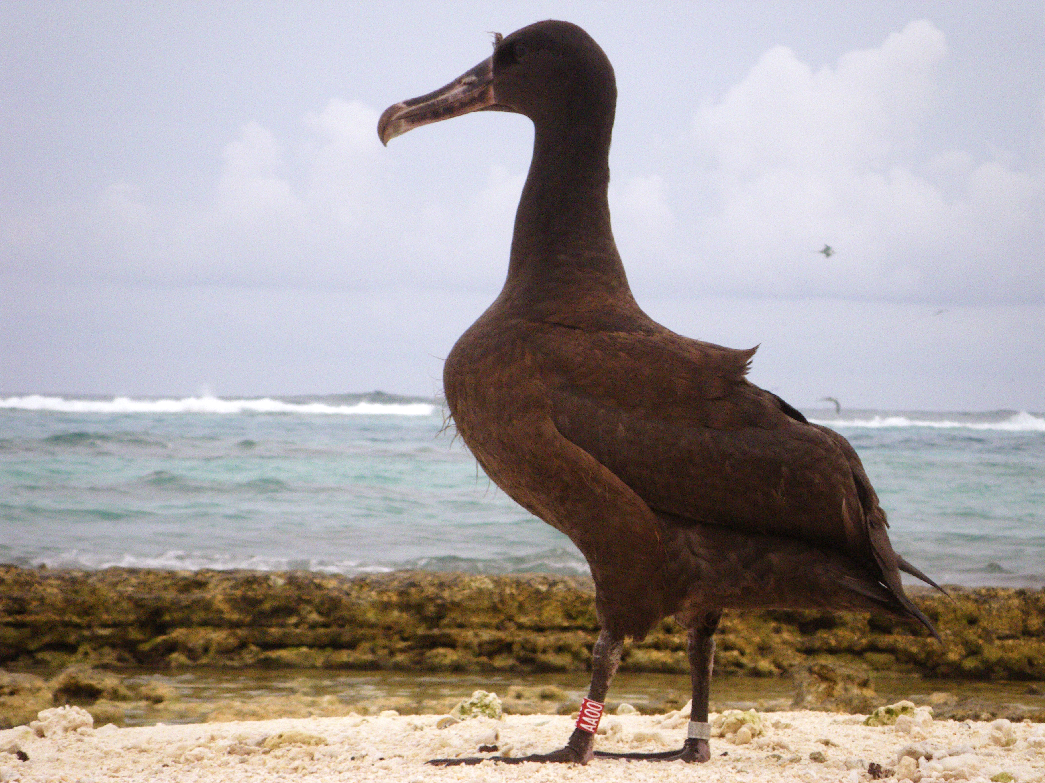 A juvenile Short-tailed Albatross in the Midway Atoll National Wildlife Refuge, Papahānaumokuākea Marine National Monument, Hawaiian archipelago, USA. It left the Atoll's Eastern Island sometime during the day. The bird was banded in anticipation of its fledging so biologists can track where it eventually goes to nest.